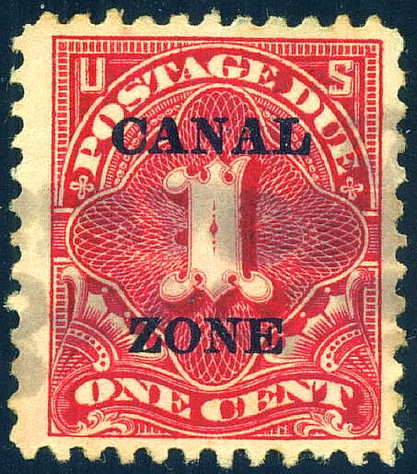 Canal Zone Postage Due-1c, 1924 Issue